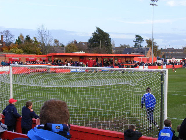 Alfreton Town FC - The Impact ArenaFA Cup 1st Round 2008/09 - Alfreton Town 4-2 Bury Town FC. From the terrace looking towards the main stand as Bury Town FC's travelling fans wait for their players to come on to the pitch for kick-off.